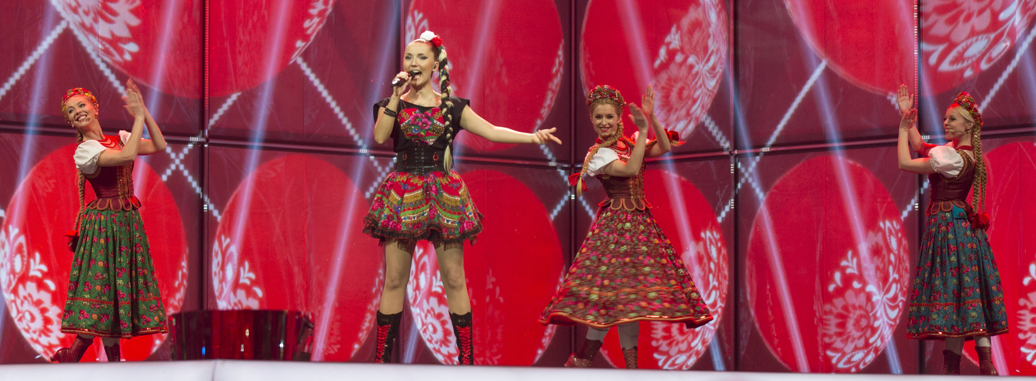 Donatan and Cleo representing Poland with the song "My Słowianie" during the first dress rehearsal of the second semi final of the Eurovision Song Contest 2014 Copenhagen. (Help translate this text)